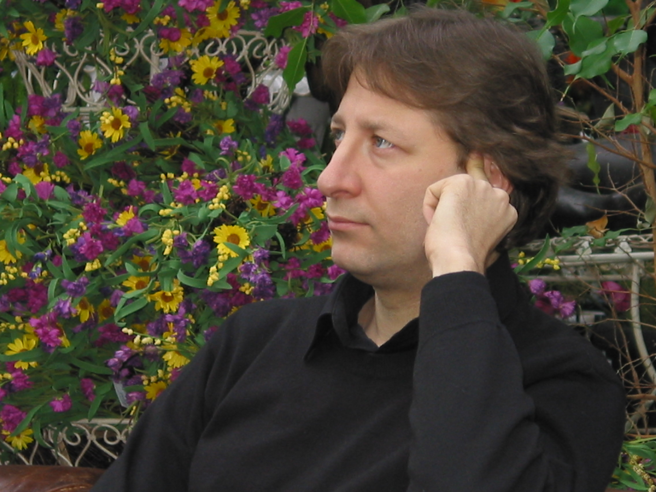 architect, tv-journalist, speciality topics related environment